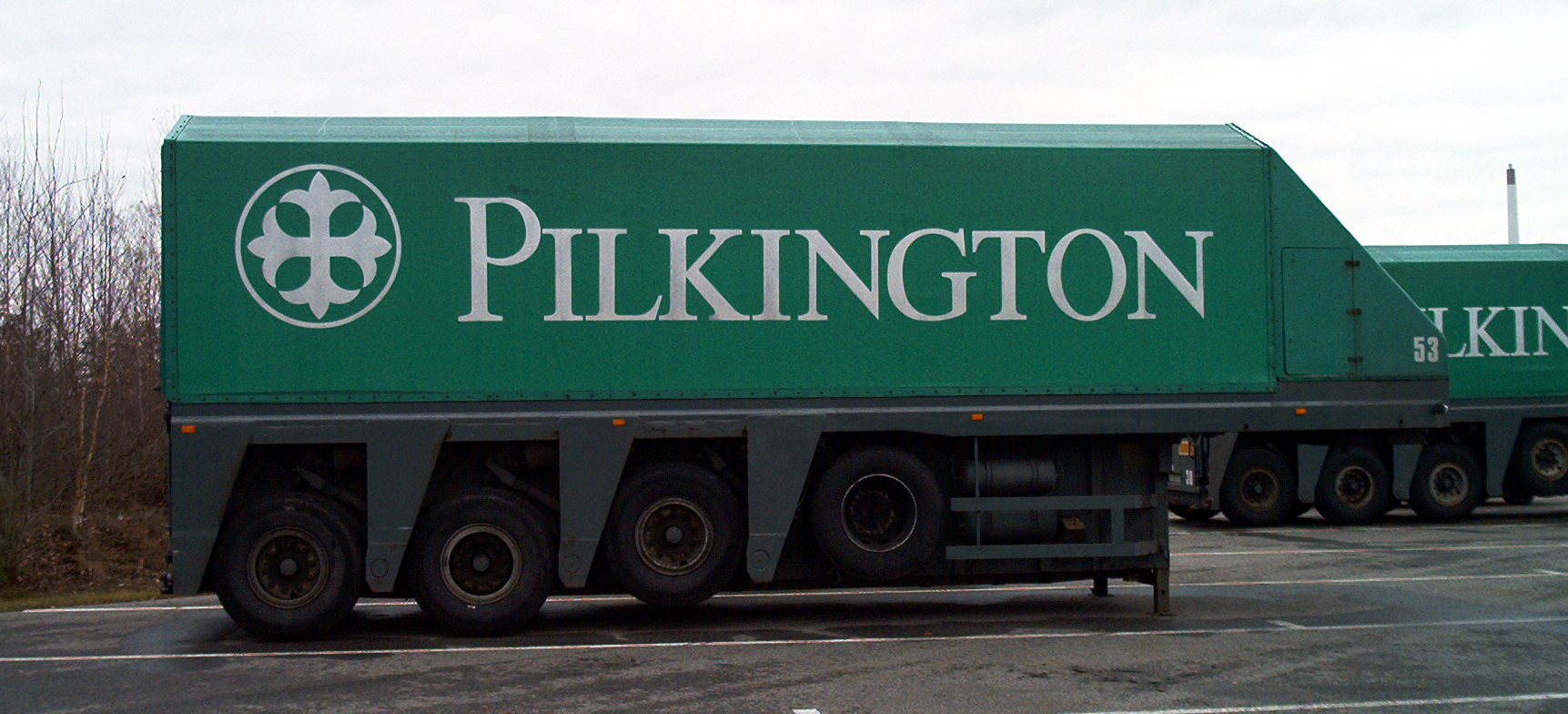 Specially designed semitrailer for glass transport